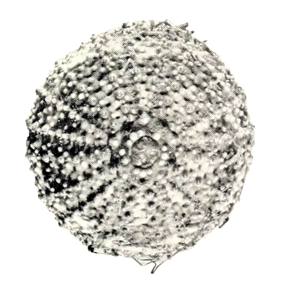 Plate 26. Fig. 4. Temnotrema sculptum A. Ag. Specimen from Japan, x 8. (In the colored plates, all figures are shown natural size, with the aboral or (in holothurians) dorsal side up, unless otherwise stated. Unless designated as young, the specimens were normal adults but in some cases small individuals were selected to save space. In the uncolored plates, the dorsal side is shown, but in some species the oral side is also presented. As a rule the holotype serves as the basis of the photograph. The magnification varies but is indicated in each case.)